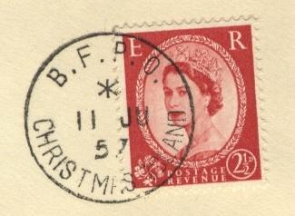 1957 Christmas Island BFPO postmark on British Wilding stamp.